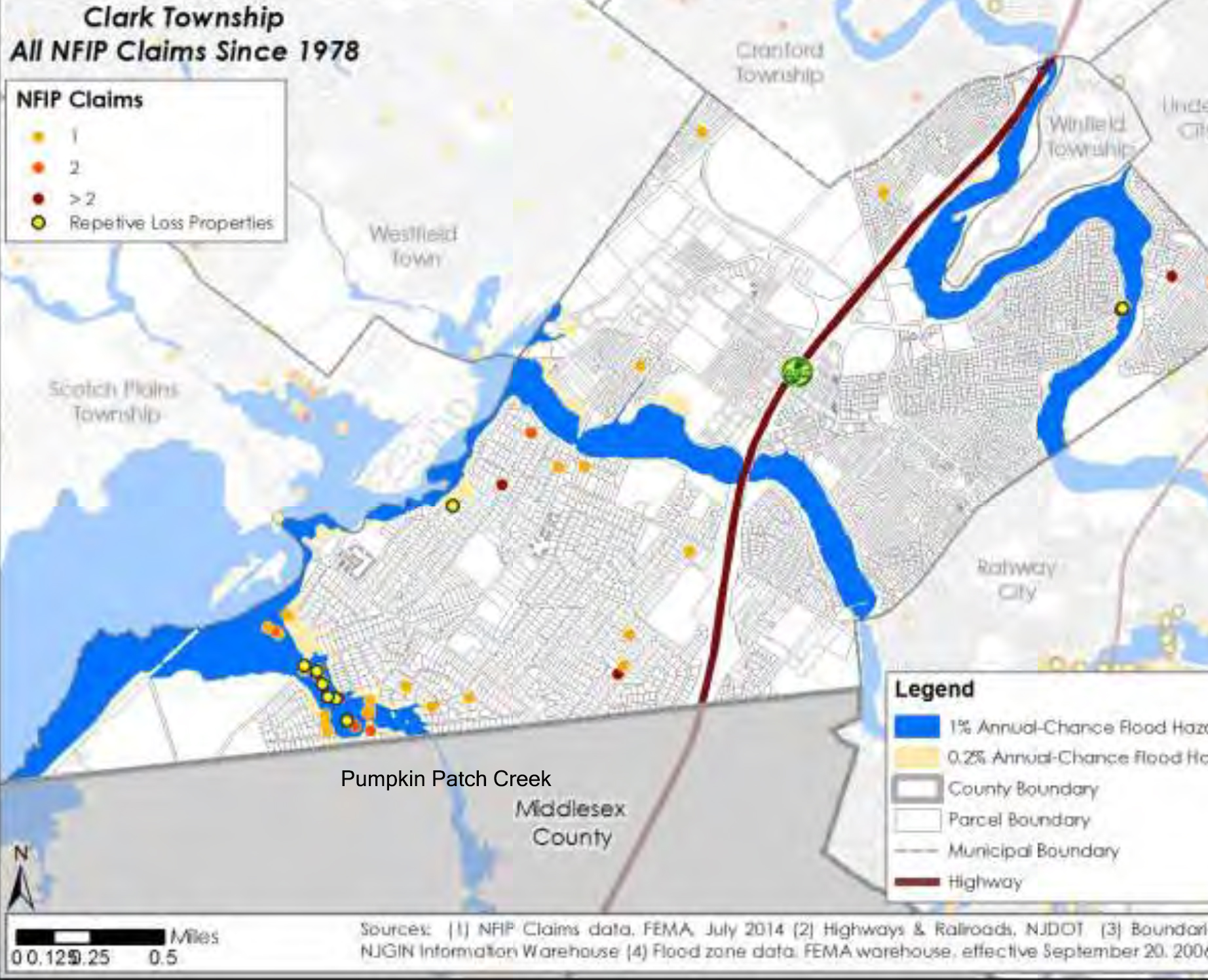 Pumpkin Path Brook, Clark Township, New Jersey; FEMS hazard map